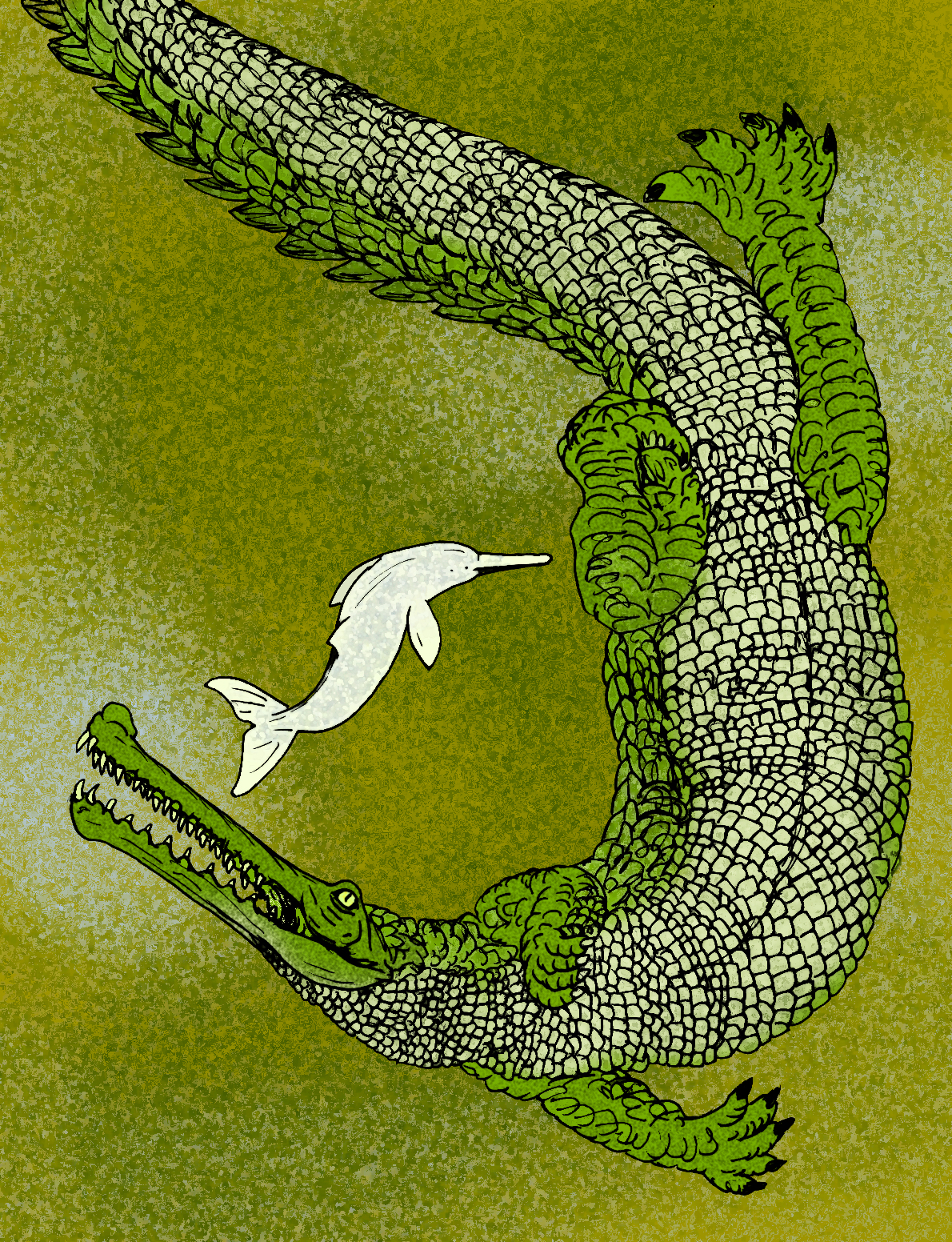 My reconstruction of the giant Pliocene gharial, Rhamphosuchus crassidens, with a Ganges river dolphin for size comparison.